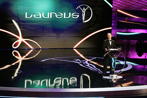 MARIINSKY THEATRE, ST PETERSBURG. At the awards ceremony of the Laureus World Sports Academy.